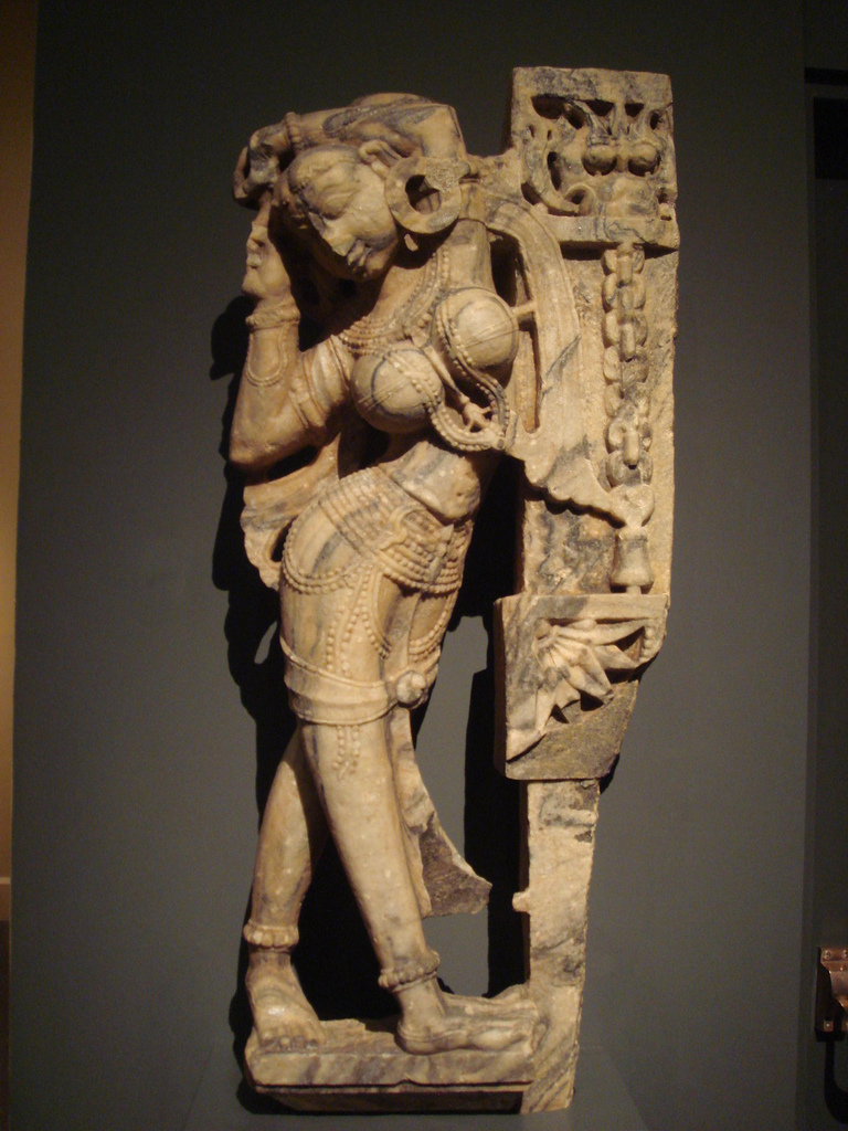 India, Rajasthan, South Asia Celestial Nymph, circa 1450 Sculpture; Stone, Striated marble, 44 1/4 x 20 x 9 1/2 in. (112.4 x 50.8 x 24.13 cm) Gift of The Ahmanson Foundation (M.80.62) Wikipedia Loves Art at the Los Angeles County Museum of Art This photo of item # M.80.62 at the Los Angeles County Museum of Art was contributed under the team name "ARTiFACTS" as part of the Wikipedia Loves Art project in February 2009. Los Angeles County Museum of Art The original photograph on Flickr was taken by sisleyceli—please add a comment to the original Flickr page whenever a use has been made on Wikipedia or another project. Project galleries on Flickr: this institution, this team